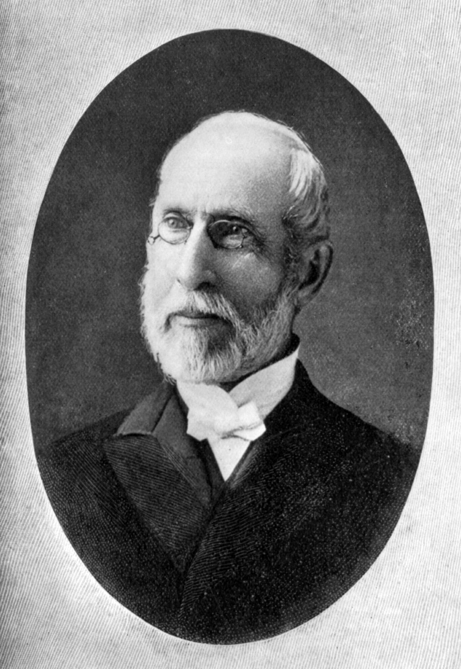 George Frederick Root, American songwriter and composer